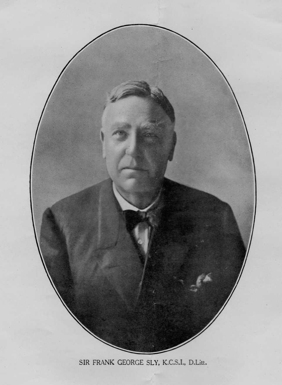 Photograph of Sir Frank Sly